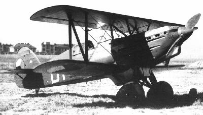 A Chech Republic air force Avia B-534